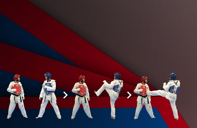 taekwondo